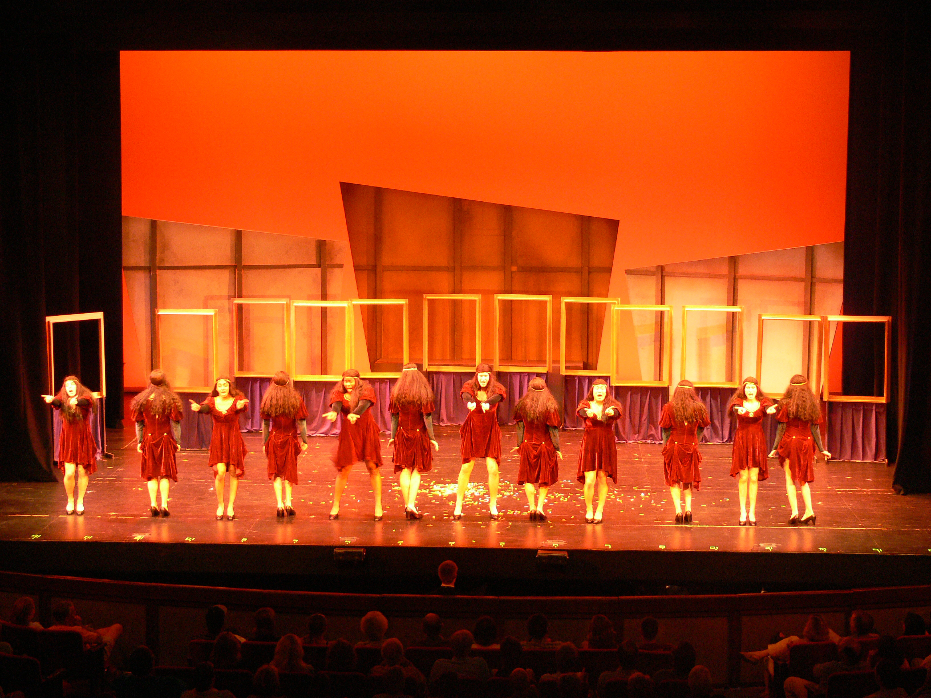 Princeton Triangle Club. "Heist Almighty" (Triangle Club Mainstage show of 2006): male ensemble as "Mona Lisas" approaching the traditional kickline number that ends the show. McCarter Theatre, Princeton, New Jersey